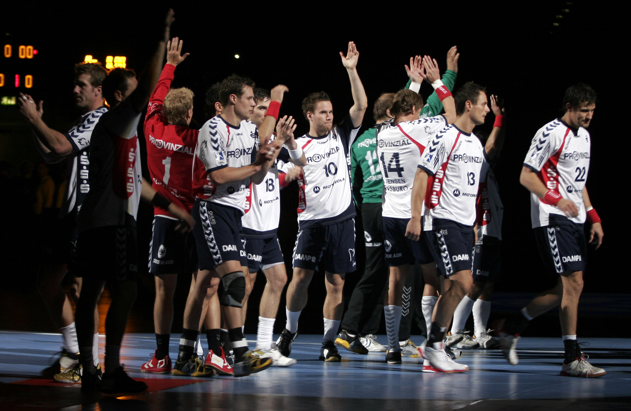 Team of SG Flensburg-Handewitt, in the Kölnarena prior the gane VfL Gummersbach - SG Flensburg-Handewitt